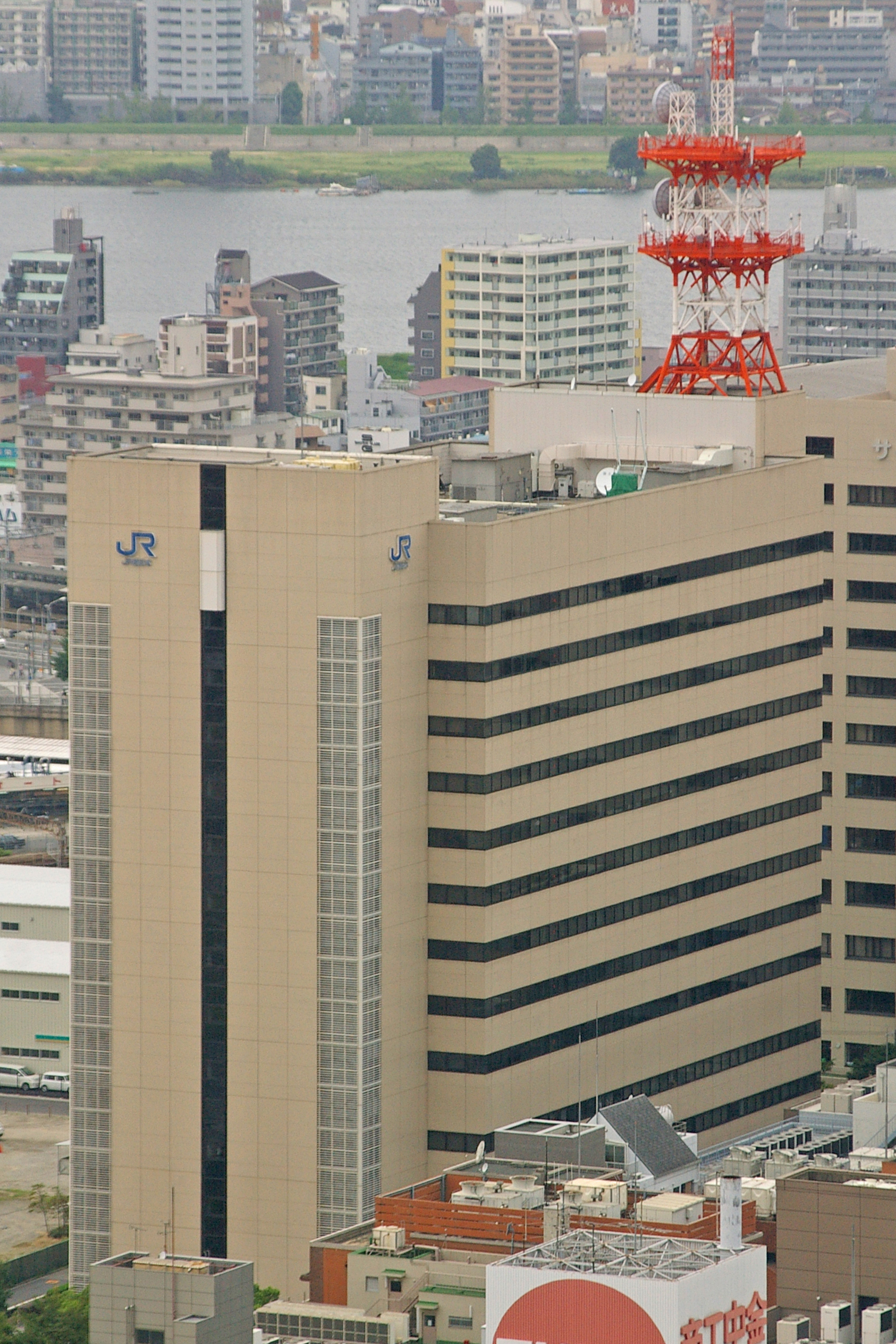 Photograph of JR West Headquarters Building, head office of West Japan Railway Company in Kita-ku, Osaka, Osaka Prefecture, Japan.